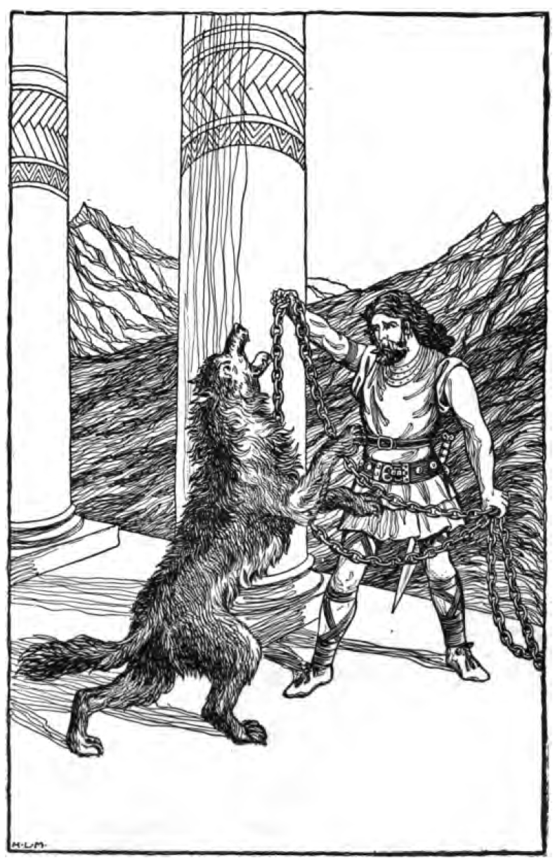 Captioned as "Thor Chaining Fenrir". The god Thor chains the wolf Fenrir.